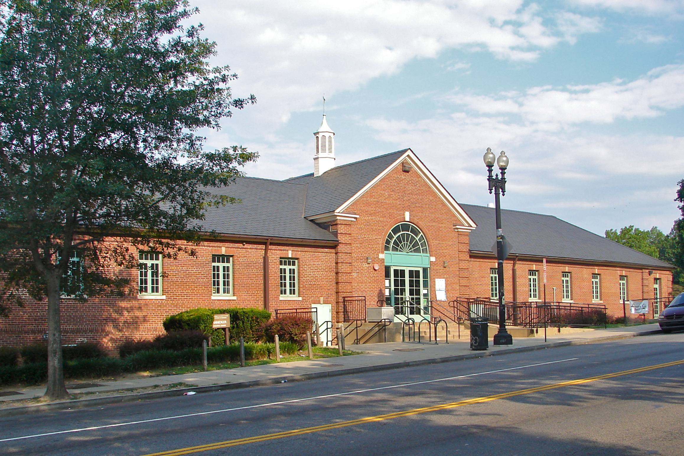 Banneker Recreation Center on the NRHP since April 28, 1986. At 2500 Georgia Ave. NW, Washington, DC. Near Howard University, Columbia Heights neighborhood.